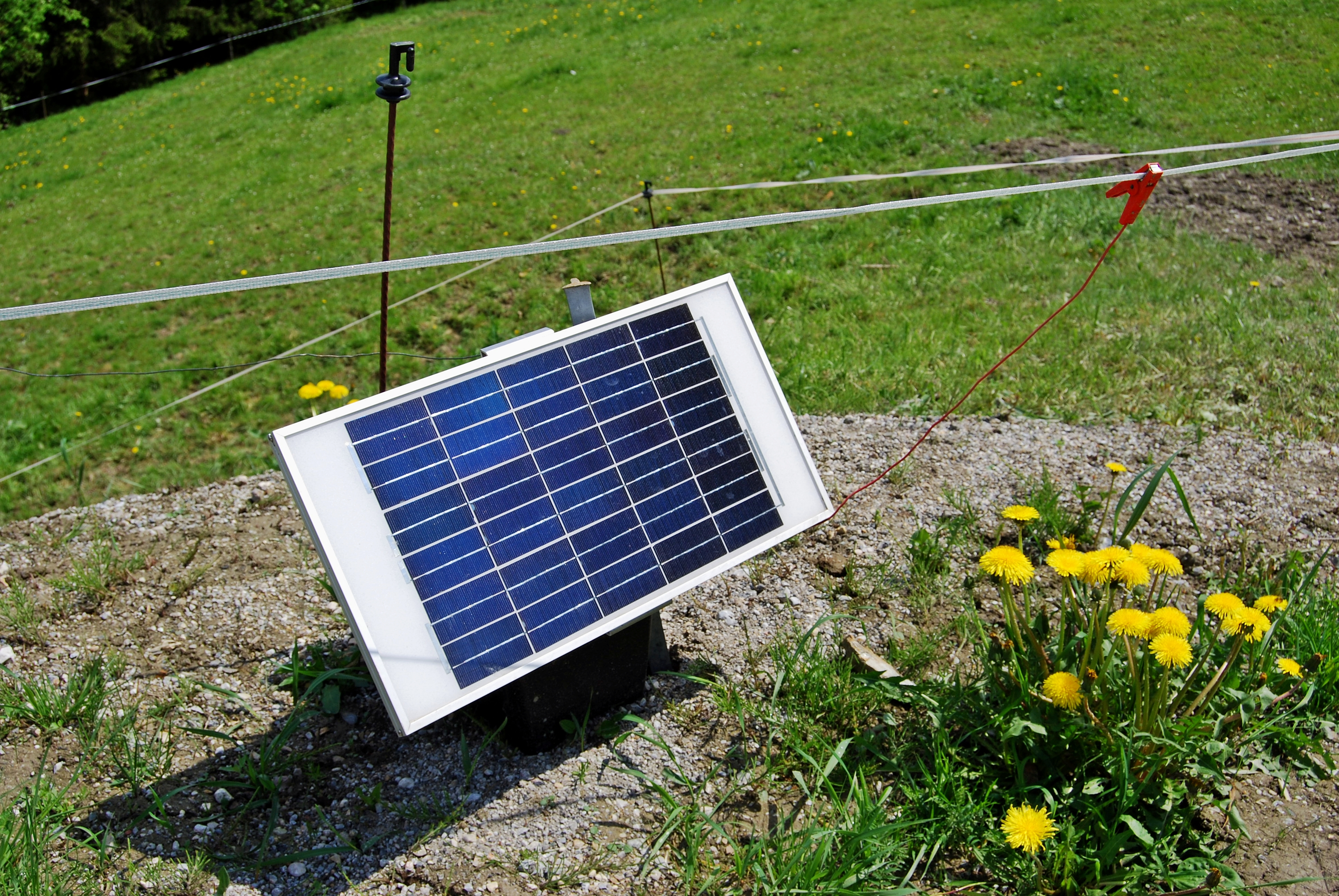 Solar propulsion for an electric fence